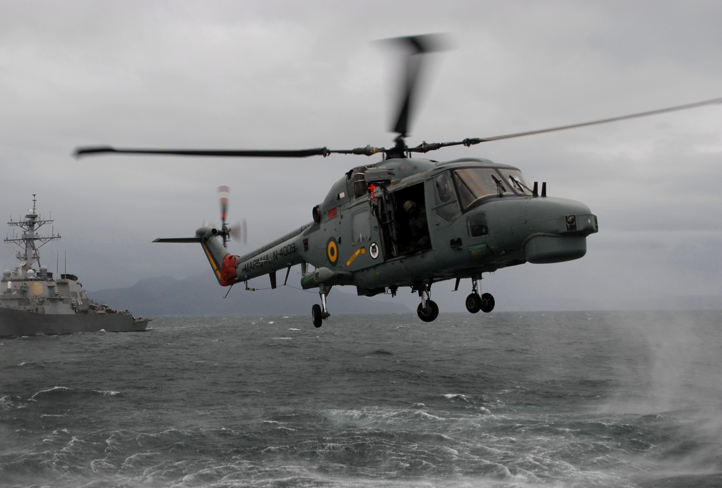 A Brazilian navy AH-11A Super Lynx Mk-21A helicopter prepares to drop a boarding team by fast rope during a visit, board, search and seizure (VBSS) exercise.